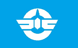 Flag of Tosashimizu Kochi